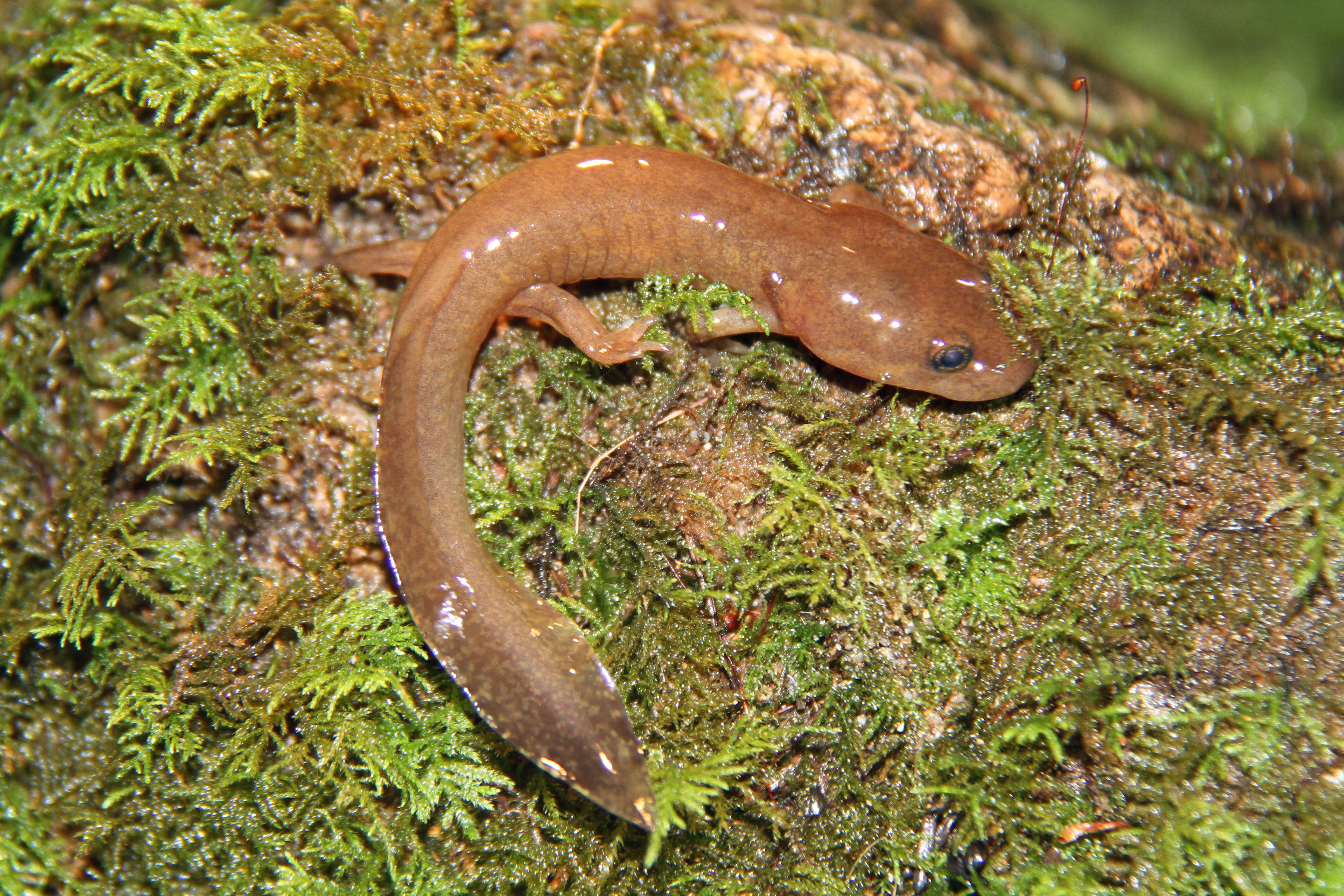 Dicamptodon ensatus — California Giant Salamander. At Purisima Creek Open Space Preserve, S.F. Bay Area, California.